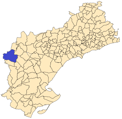 Batea